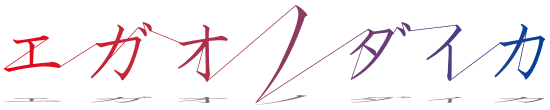 Logo of the anime The Price of Smiles